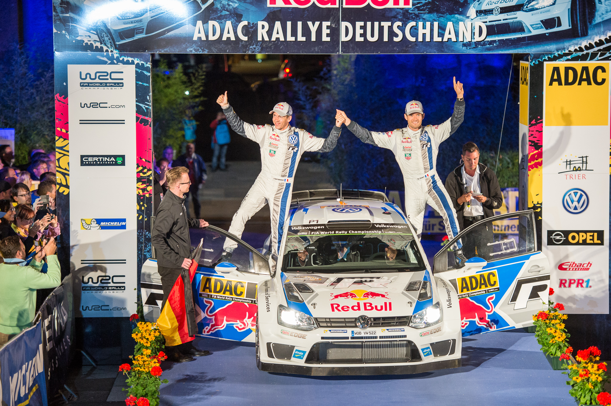 ADAC Rallye Deutschland 2014,Ceremonial Start,FIA,FIA World Rally Championship,Julien Ingrassia,Motorsport,Rally,Rallye,Sebastien Ogier,Showstart,VW Polo WRC,Volkswagen Motorsport,Volkswagen Polo WRC,WRC,Zeremonienstart